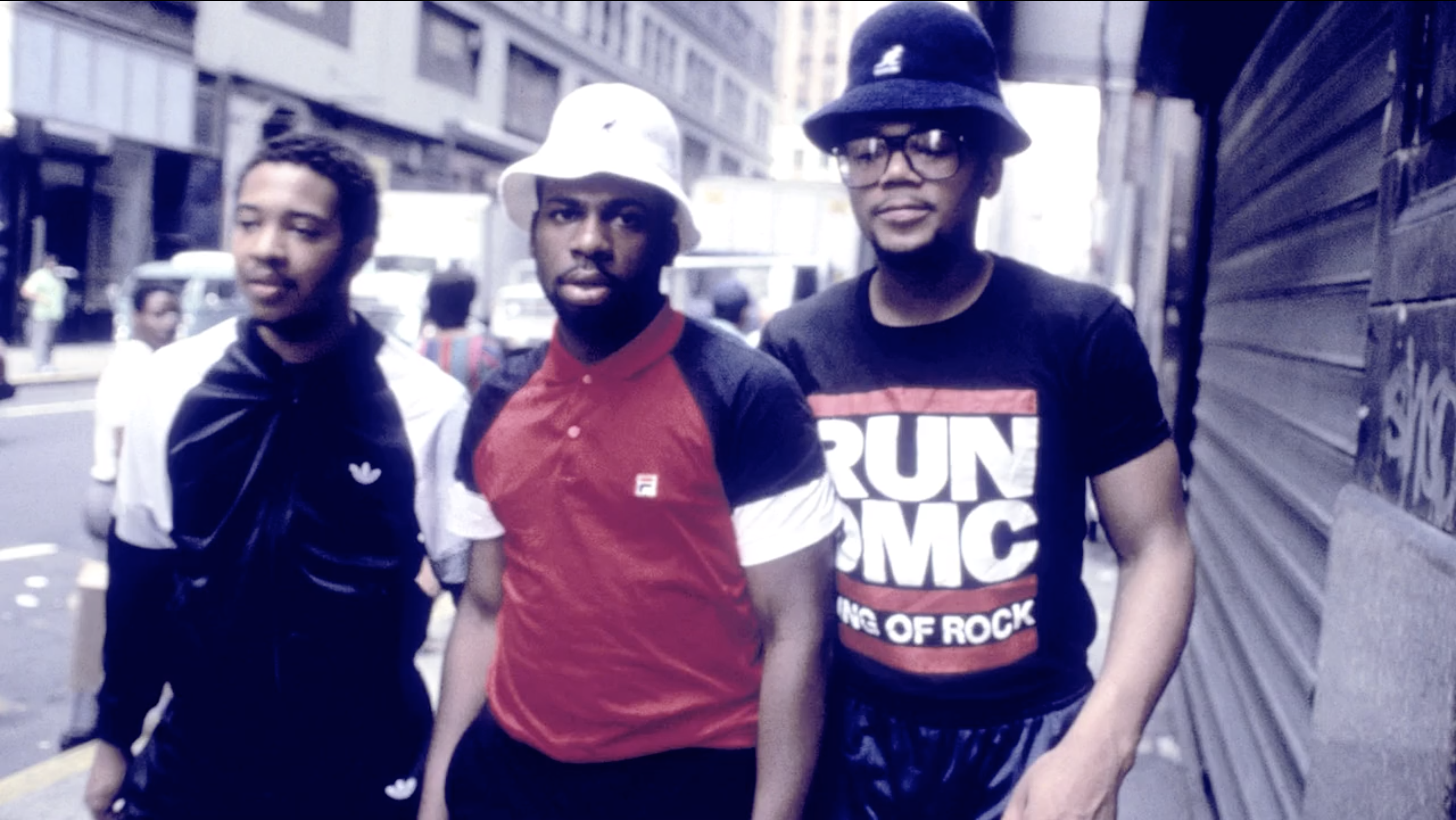 Run DMC: Streets of New York